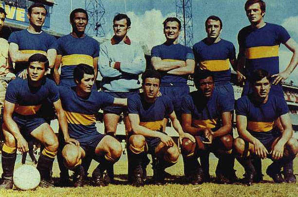 The Boca team that won the 1969 Torneo Nacional of Argentina. (stand): Roberto Rogel, Julio Meléndez, Rubén Sánchez, Rubén Suñé, Norberto Madurga, Silvio Marzolini. (seated): Ramón Ponce, Angel Rojas, Nicolás Novello, Orlando Medina, Ignacio Ramón Peña.